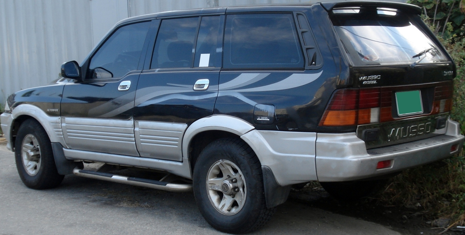 SsangYong Musso